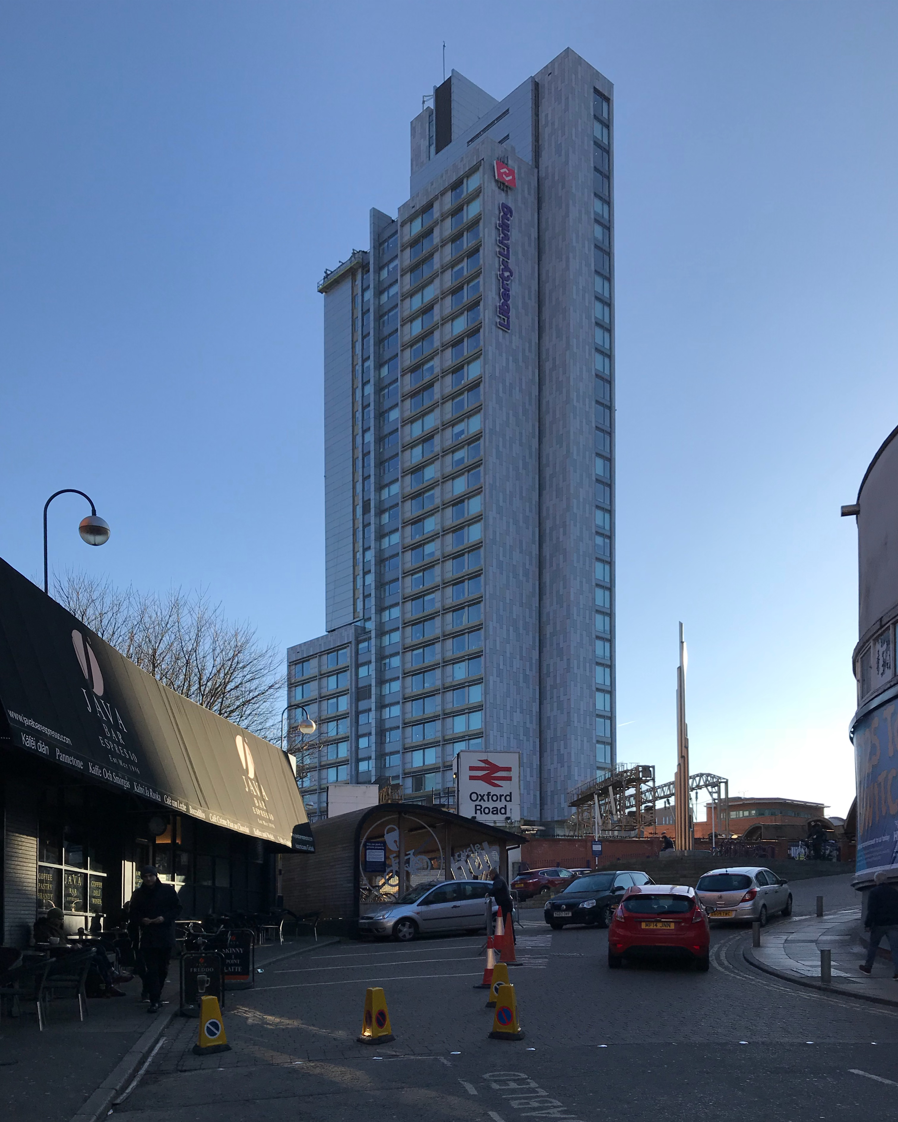 17 new wakefield 2018